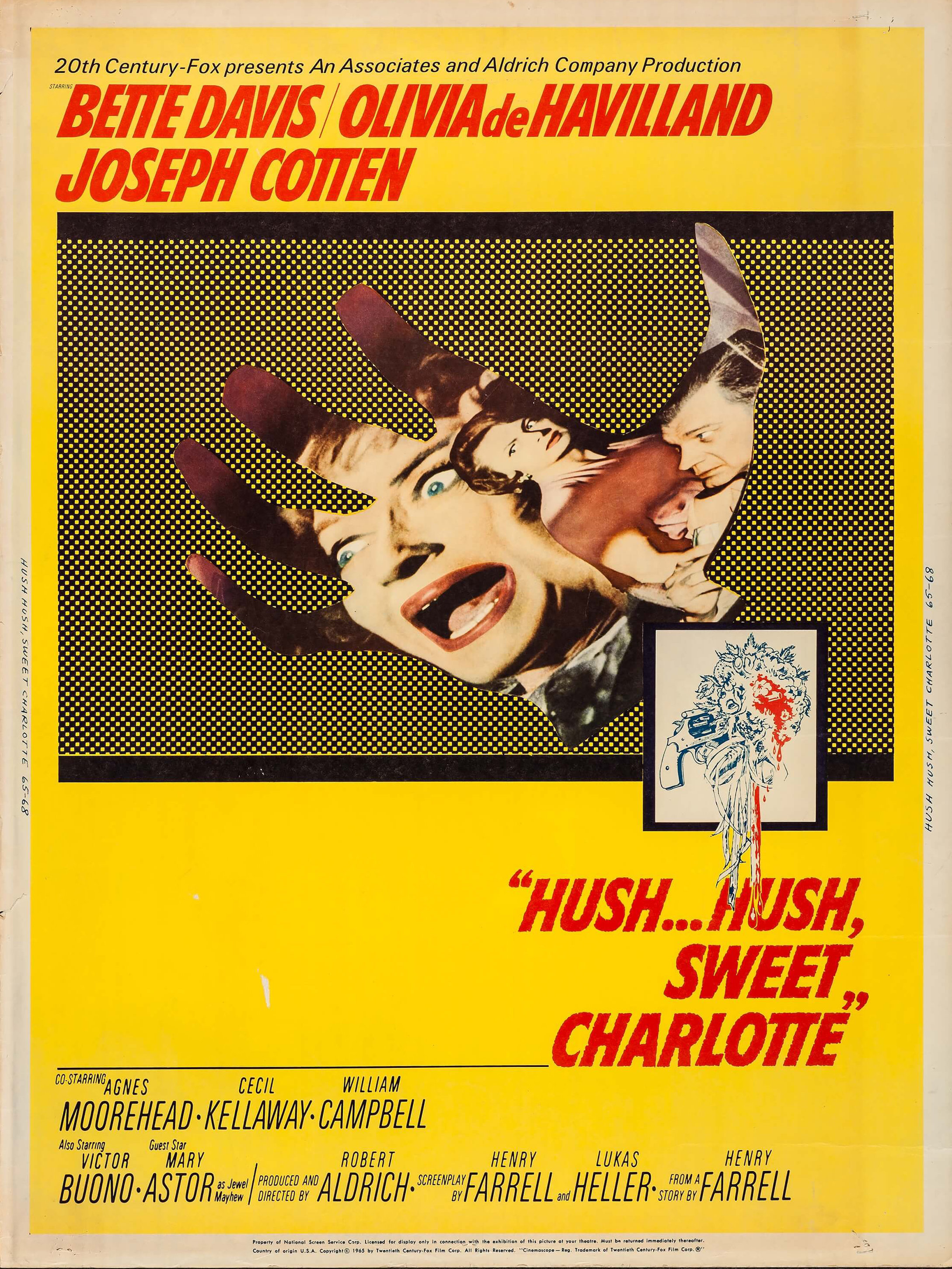 Poster artwork for the film Hush...Hush, Sweet Charlotte